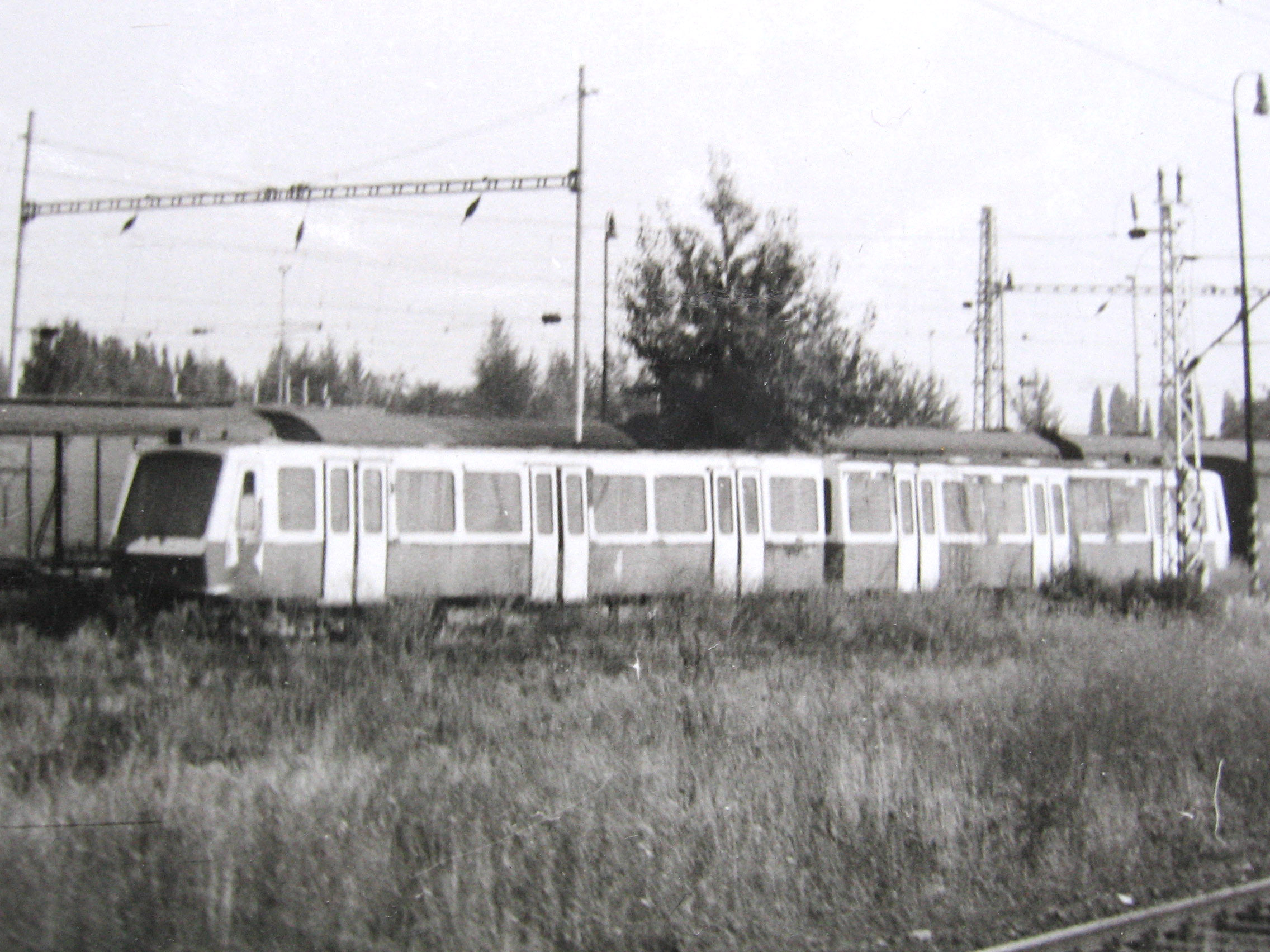 Prototype of the underground multiple unit Tatra R1 in Brno